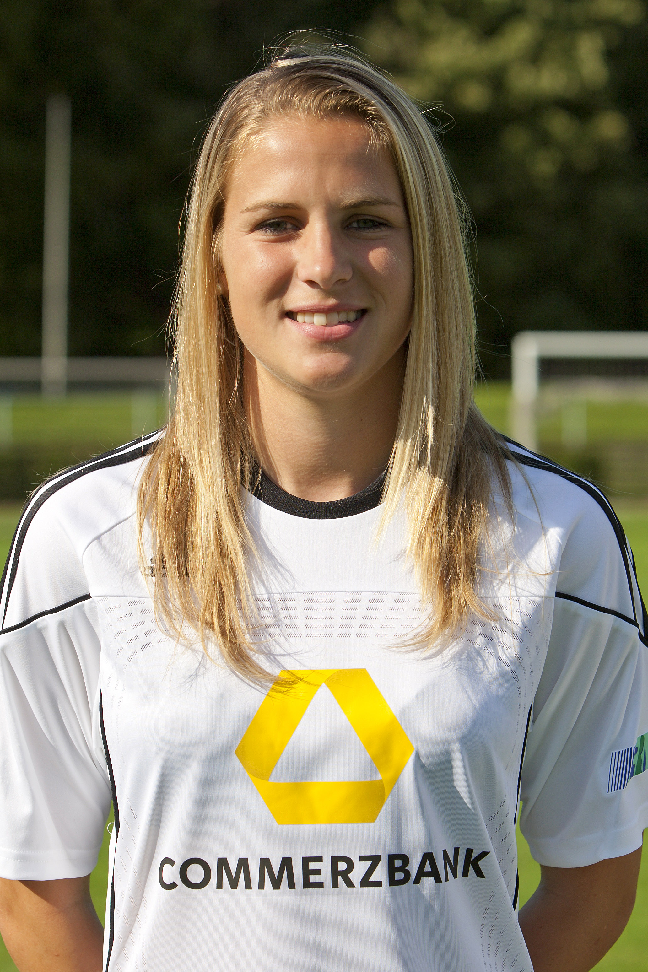 Ana-Maria Crnogorčević, August 2011